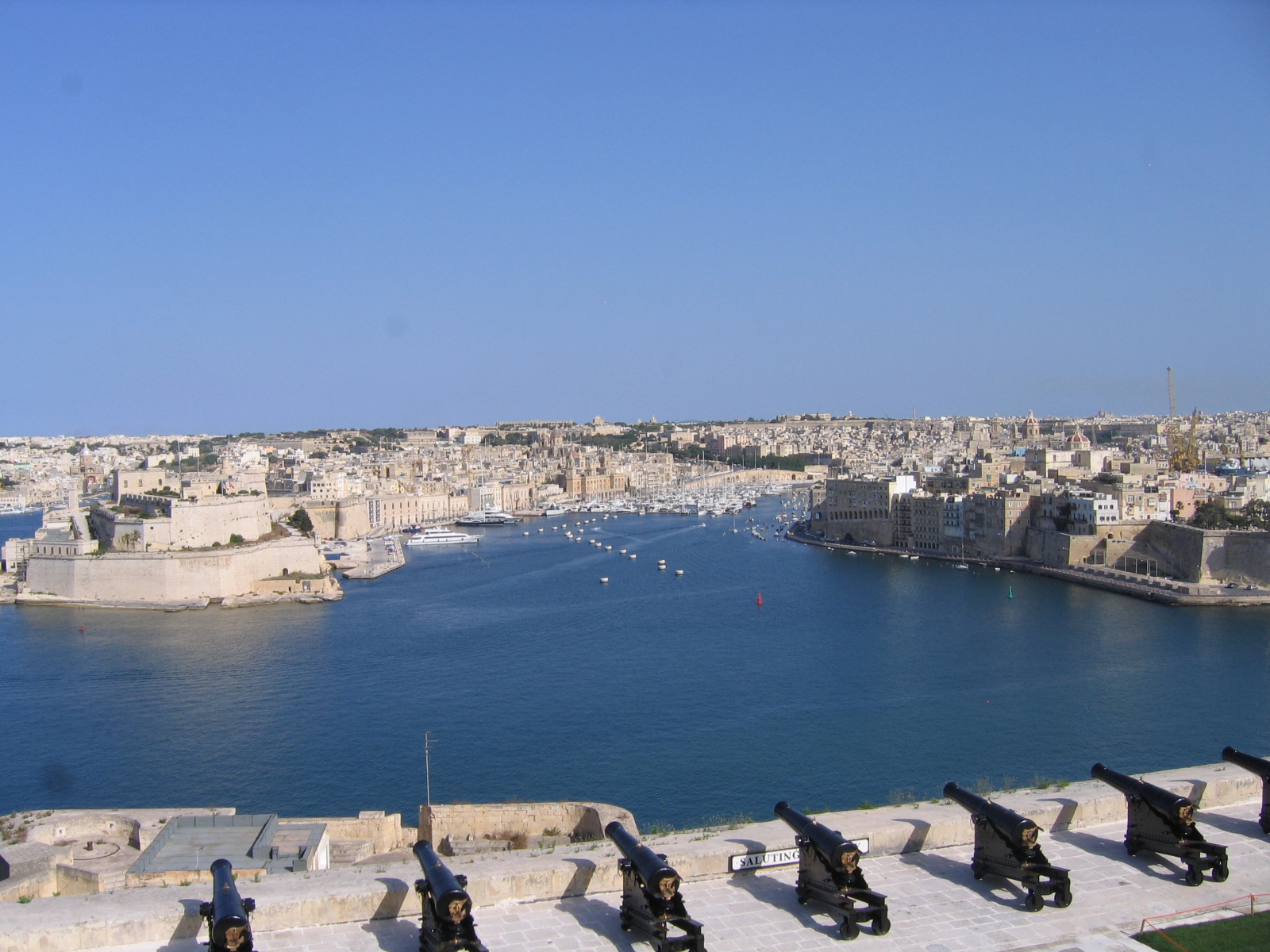 Valletta